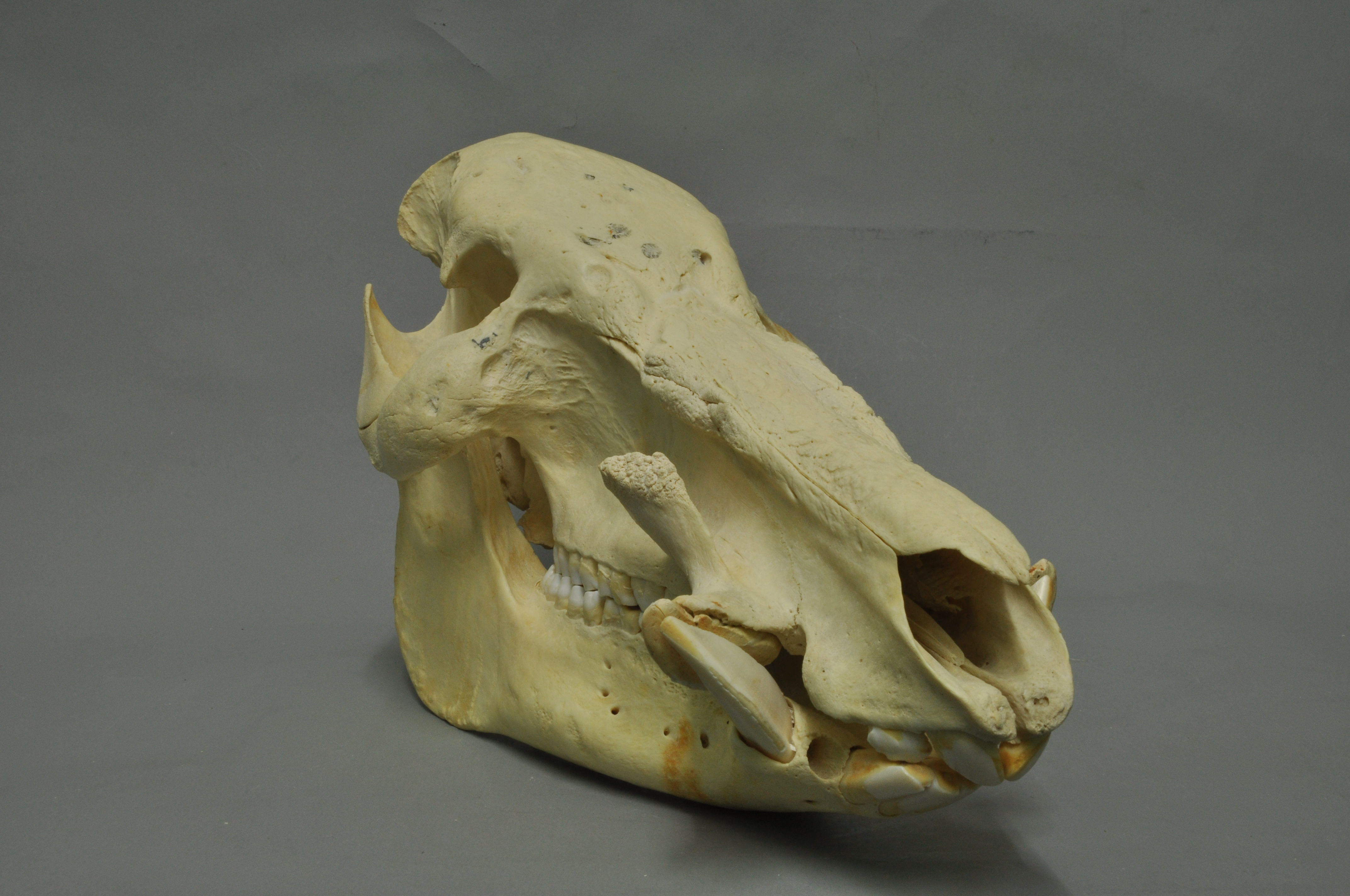 Red river hog Potamochoerus porcus, skull, Coll. Museum Wiesbaden